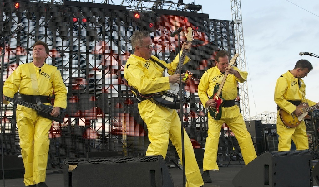 Devo at Forecatle 2010